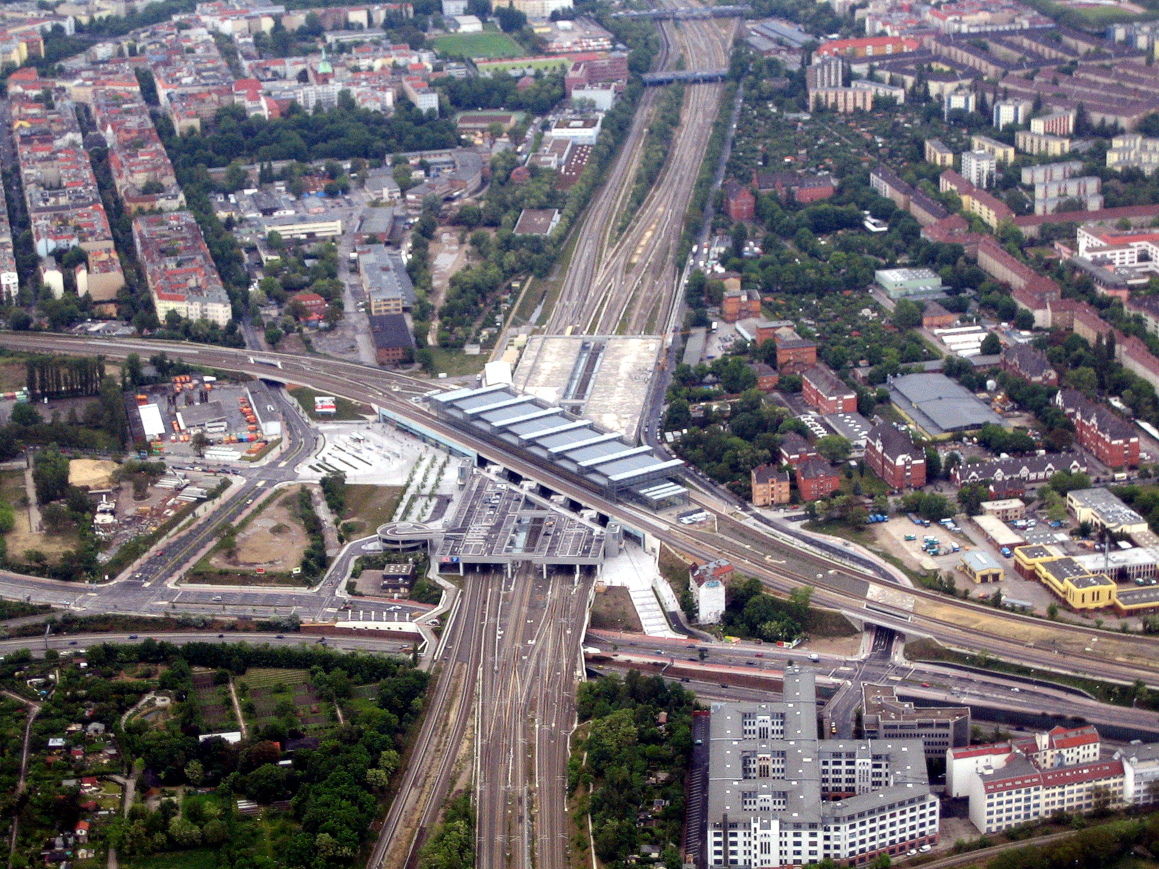 Berlin Südkreuz is a railway station in the German capital Berlin.